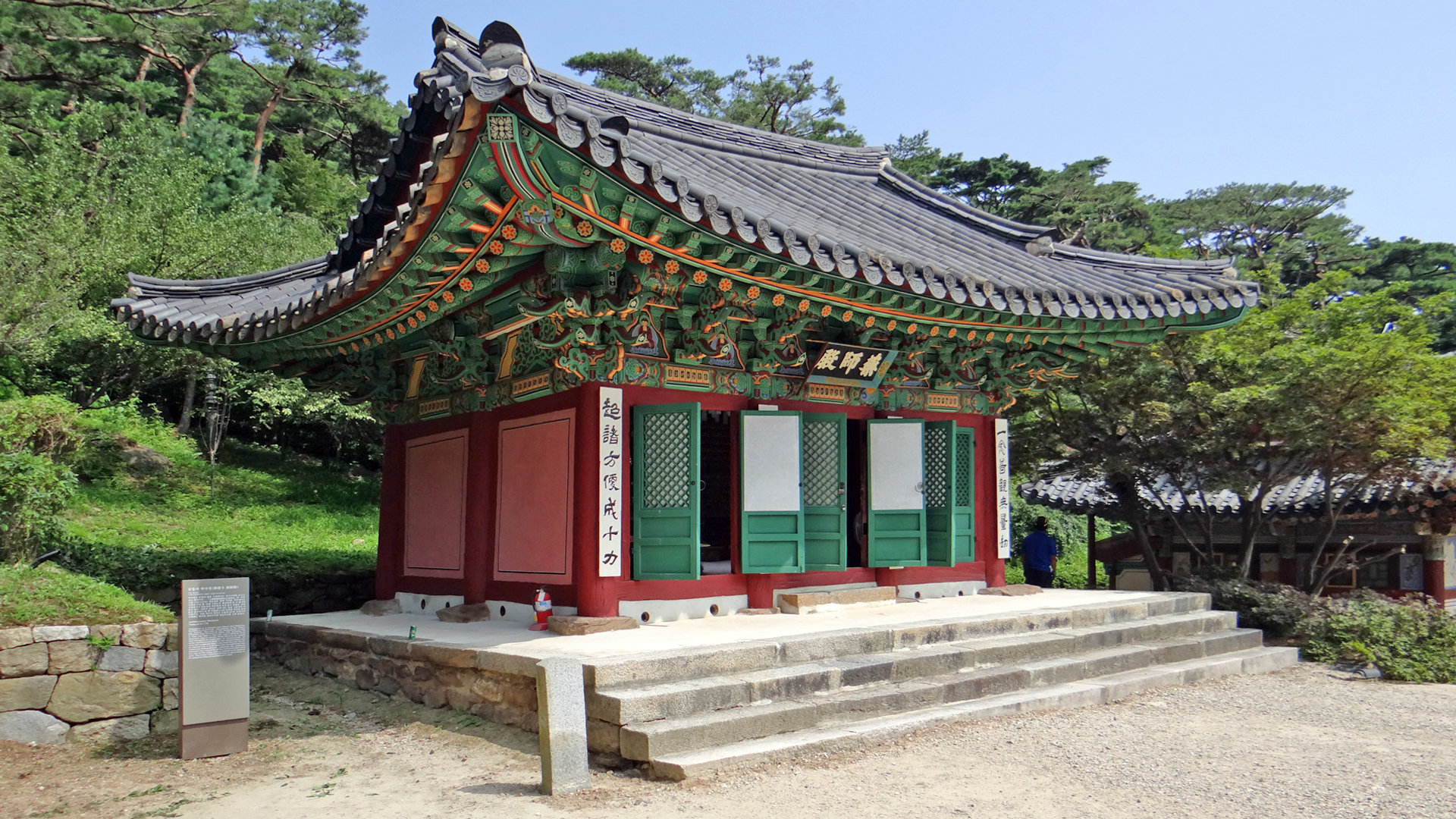 Jeondeungsa Yaksajeon is a temple hall where the Medicine Buddha is enshrined built during the mid-Joseon era with a hipped-and-gabled roof and cross-hatched ceiling decorated with patterns lotus blossoms and vines. Jeondeungsa, situated on Mount Jeongjok, was established by Monk Adohwasang of Goguryeo when Queen Jeonhwa, donated a jade lantern to the temple.